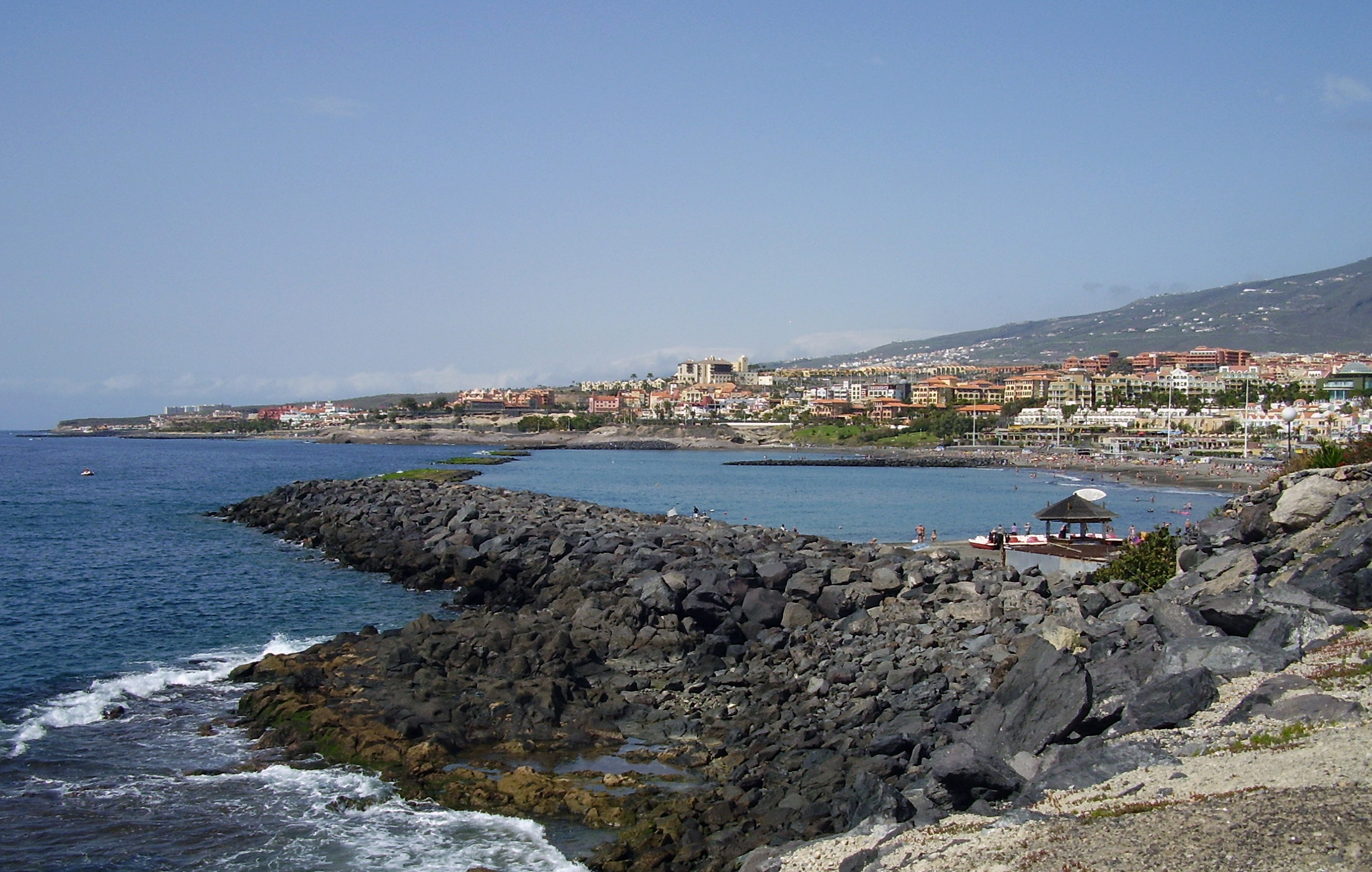 Photo from Playa de las Américas: Playa de Torvoscas & Playa de Fañabe.